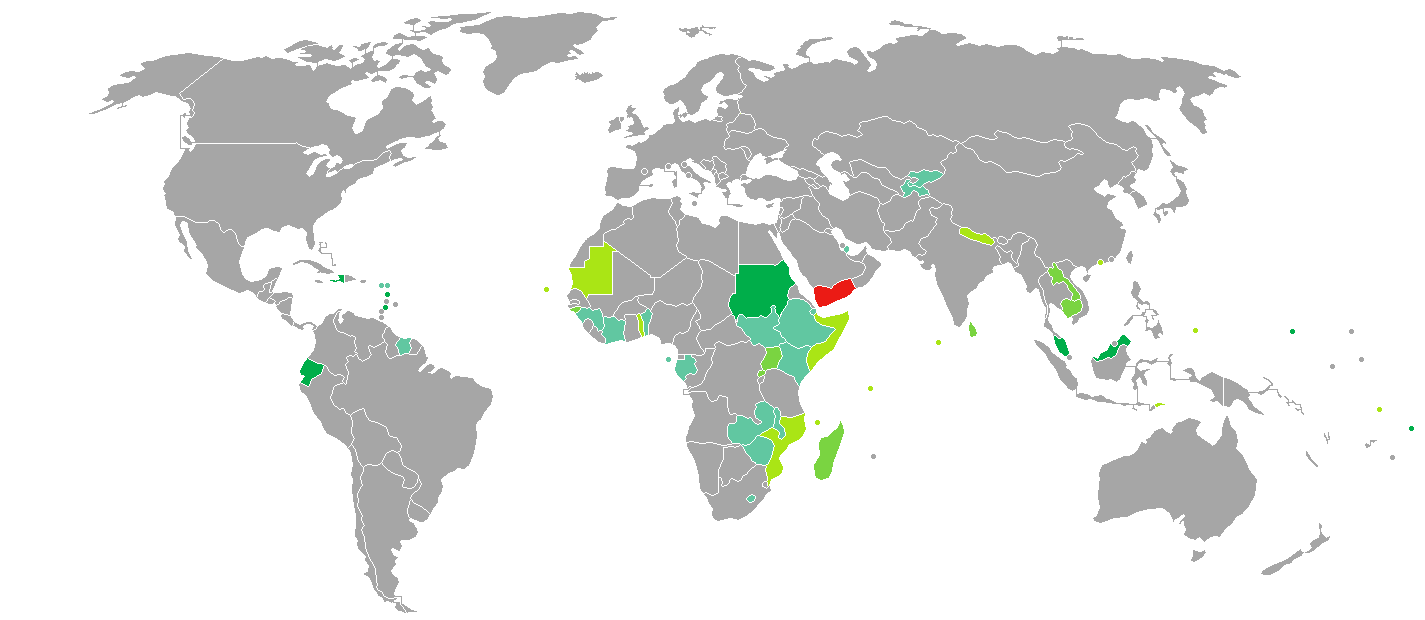 Visa requirements for Yemen citizens Yemen Visa free access Visa on arrival eVisa Visa available both on arrival or online Visa required